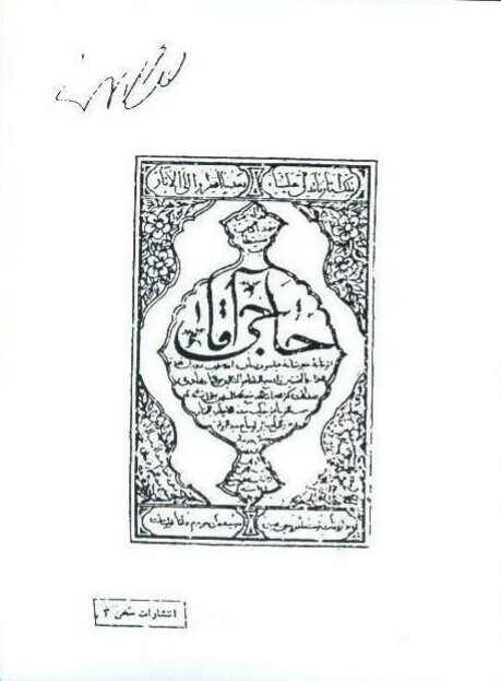 This is Sadegh Hedayat's drawing for his book: Haji Agha (first published in Iran in 1945)